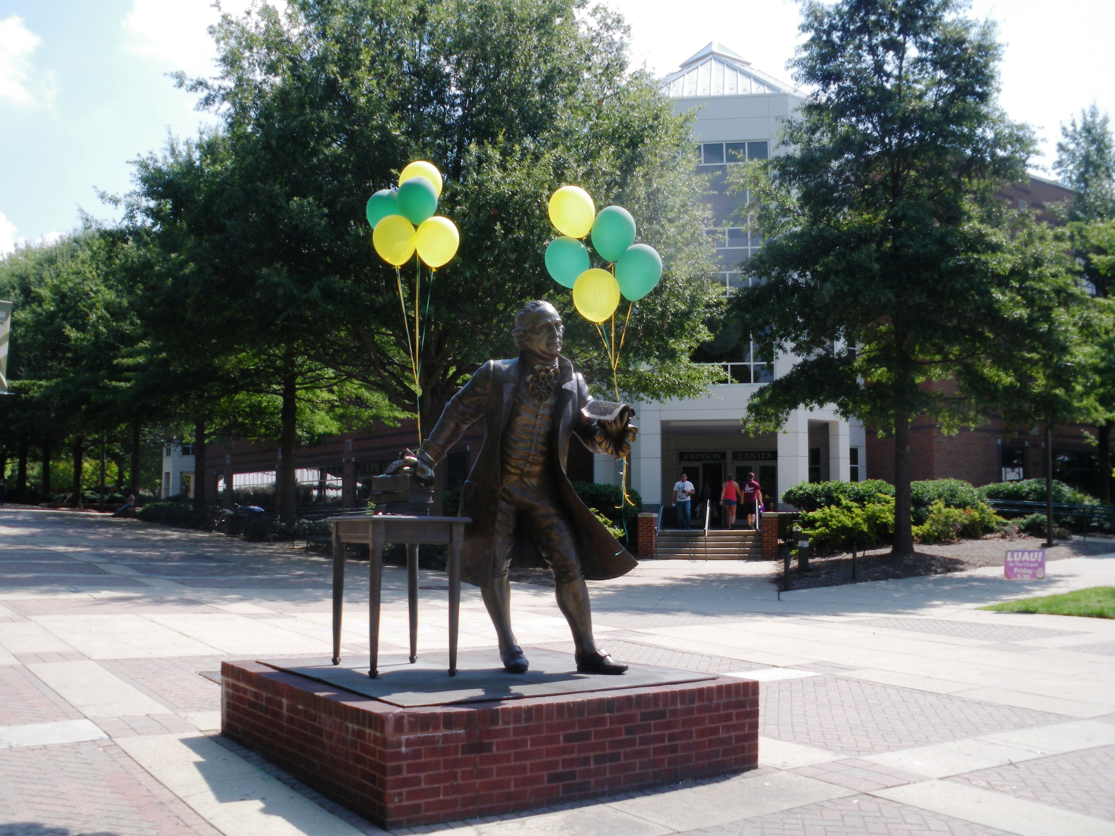 George Mason Statue on the Fairfax Campus of George Mason University